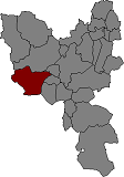 Location of Bescanó in Gironès